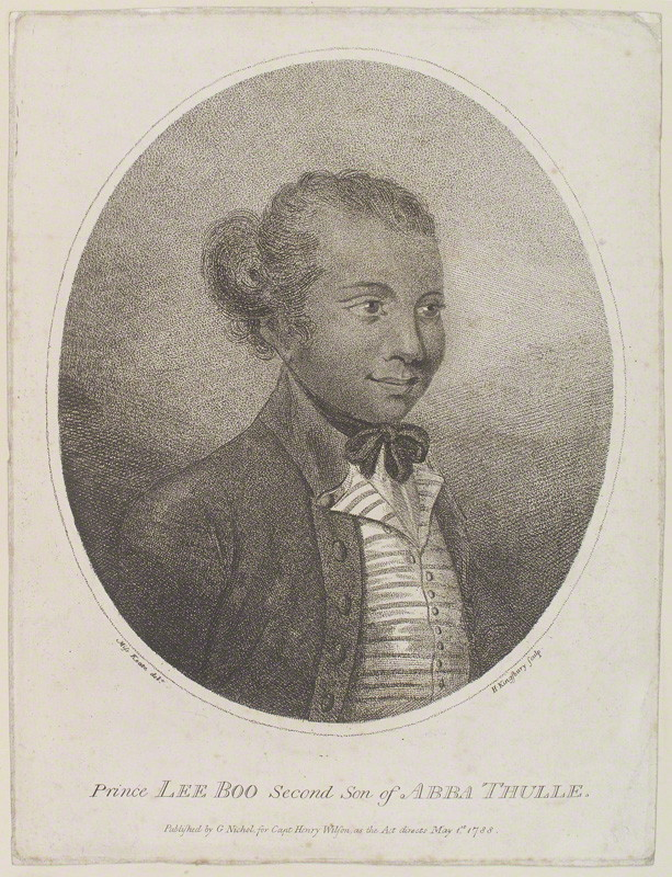 by Henry Kingsbury, published by George Nicol, published for Henry Wilson, after Georgiana Jane Henderson (nee Keate), stipple engraving, published 1 May 1788